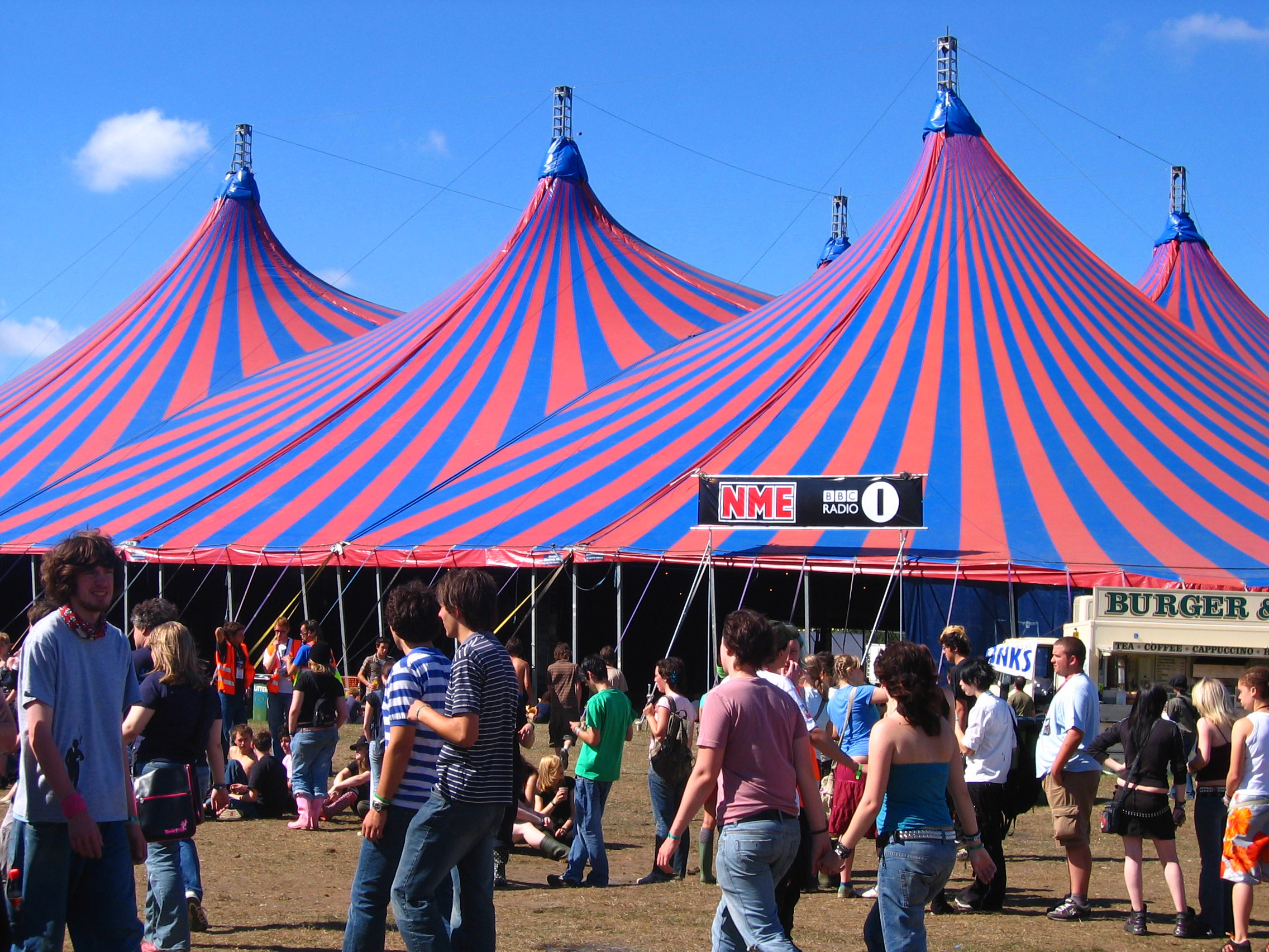 Radio 1/NME tent at the 2005 Reading Festival. Taken 28th August 05 by C Ford.